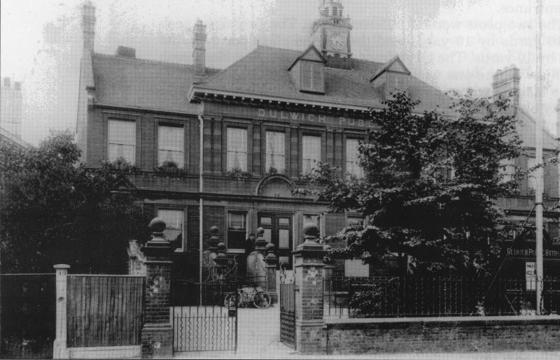 Photo taken in 1896 of Dulwich Public Baths (now Dulwich Leisure Centre). The print is owned by Southwark Council ref. PC 1725.